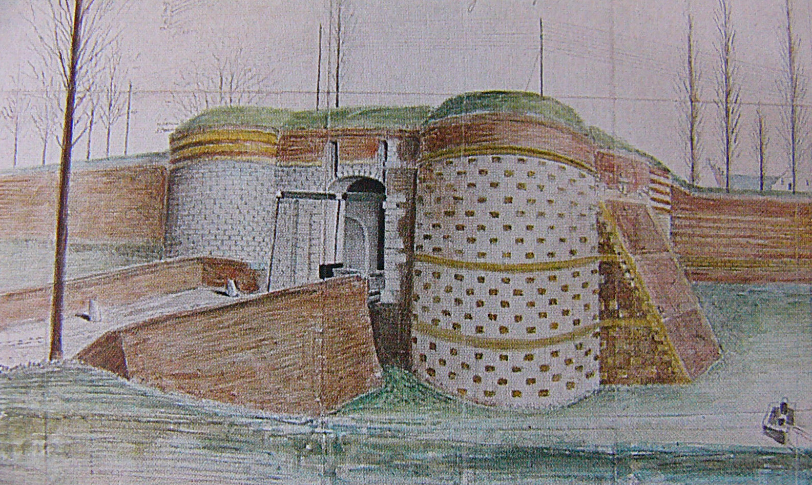 Maastricht, the Netherlands. View of Tongersepoort, a former medieval city gate demolished in 1868. Jan Brabant, ca 1860